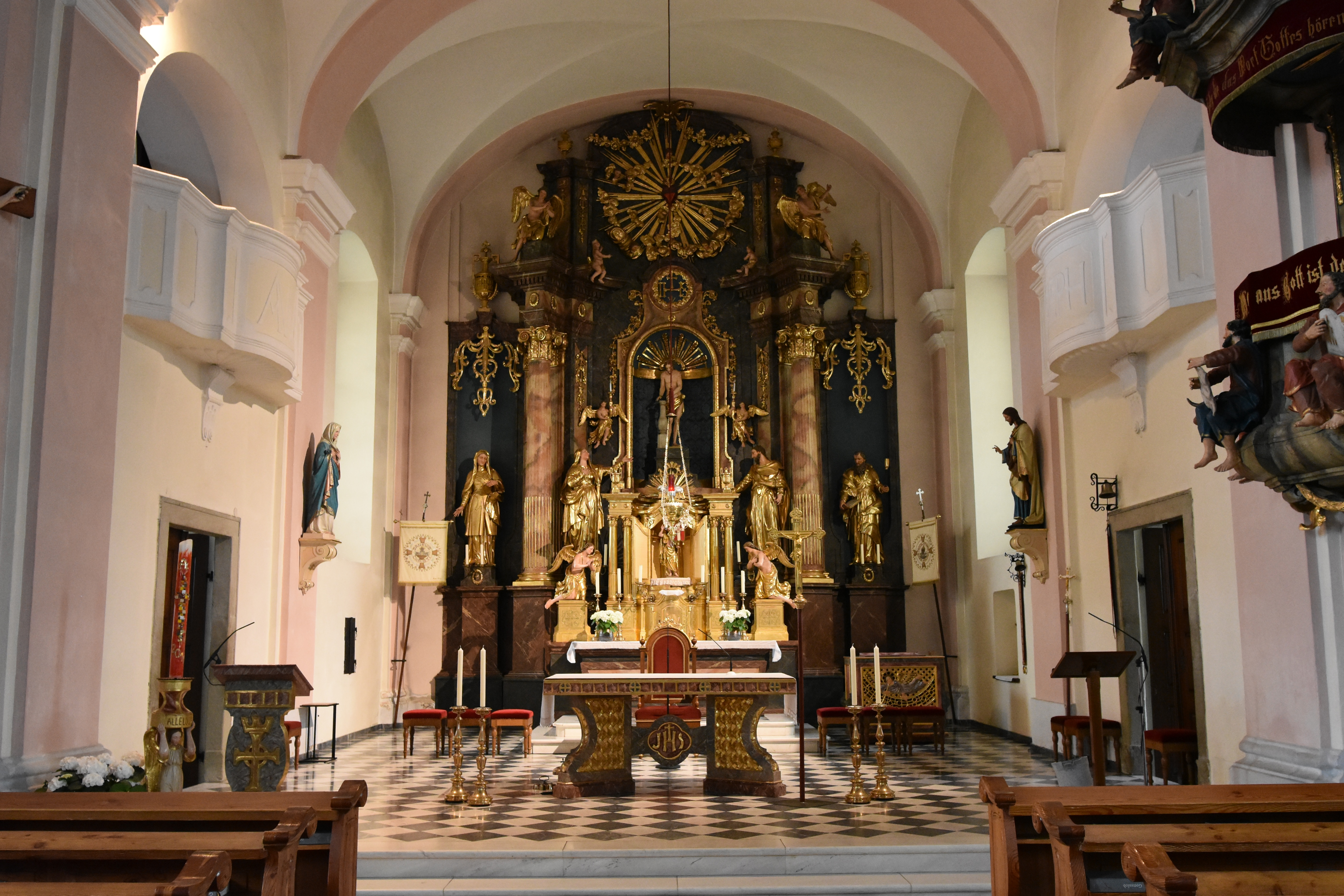 Church Wies - Interior